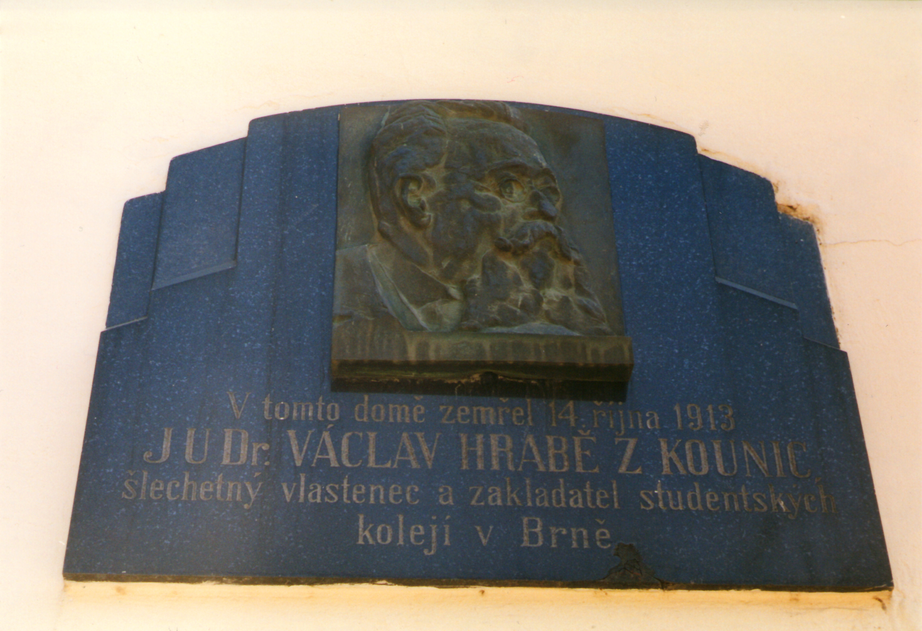 Panský dům in Uherský Brod, Czech Republic. Memorial plaque to JUDr. Václav Kaunitz.